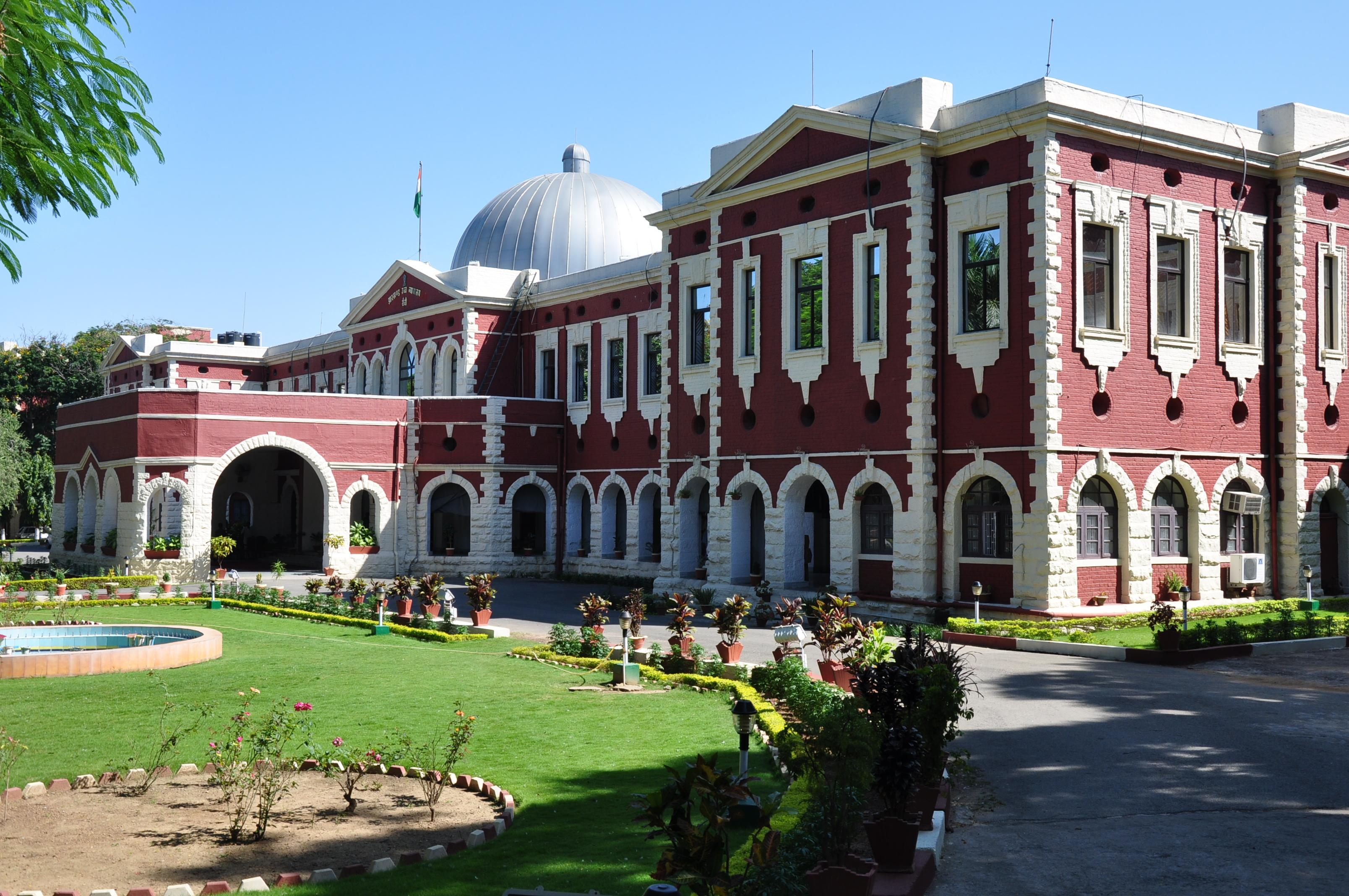 Ranchi